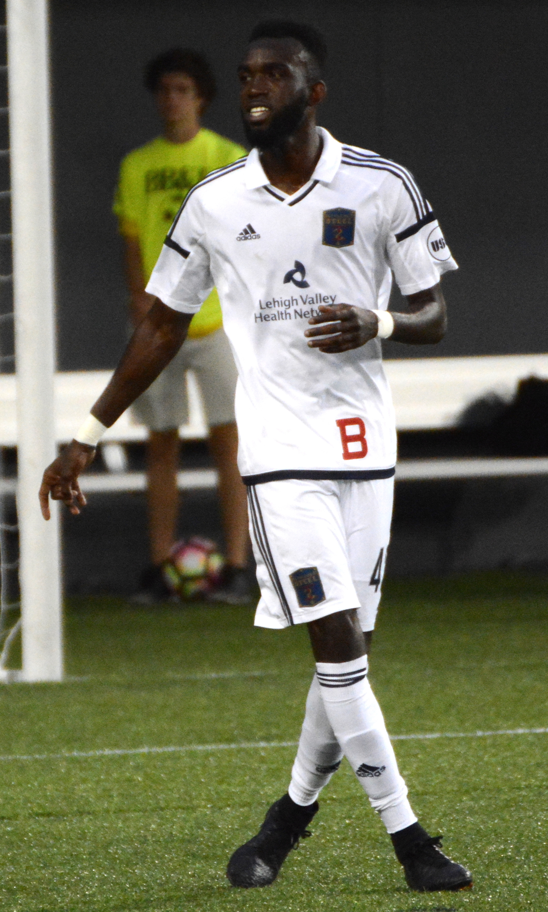 Hugh Roberts Taken during a match between FC Cincinnati and Bethlehem Steel FC at Nippert Stadium in Cincinnati, USA on May 20, 2017.